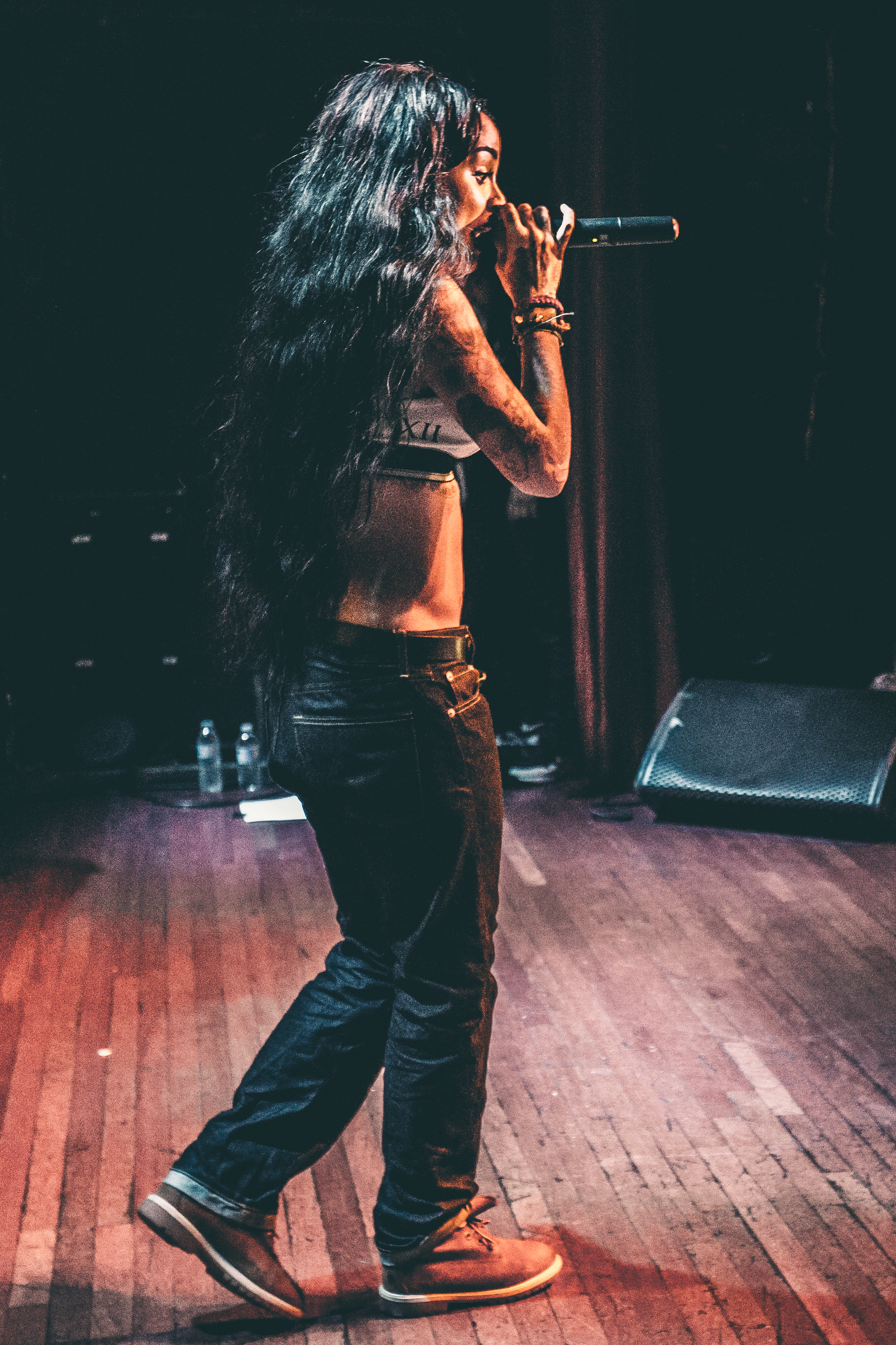 Kehlani performing on July 10, 2015 in Toronto.